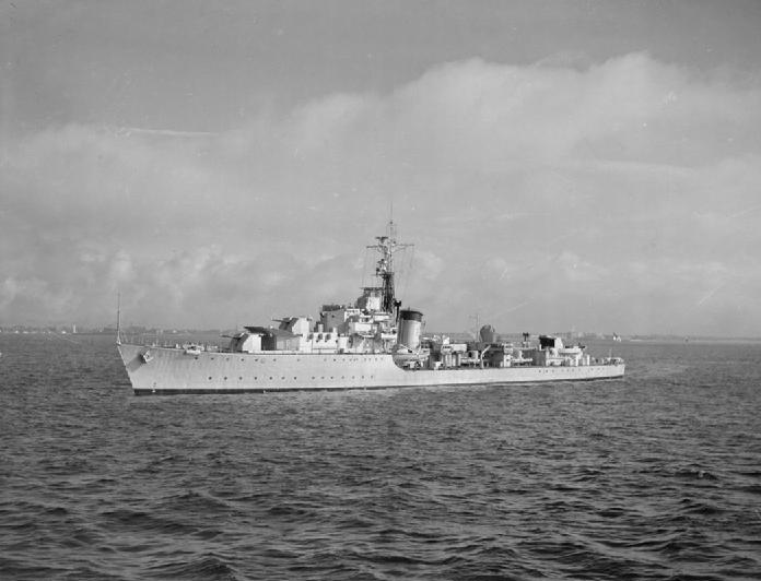 Photograph of British Z class destroyer HMS Zephyr, underway off Spithead.